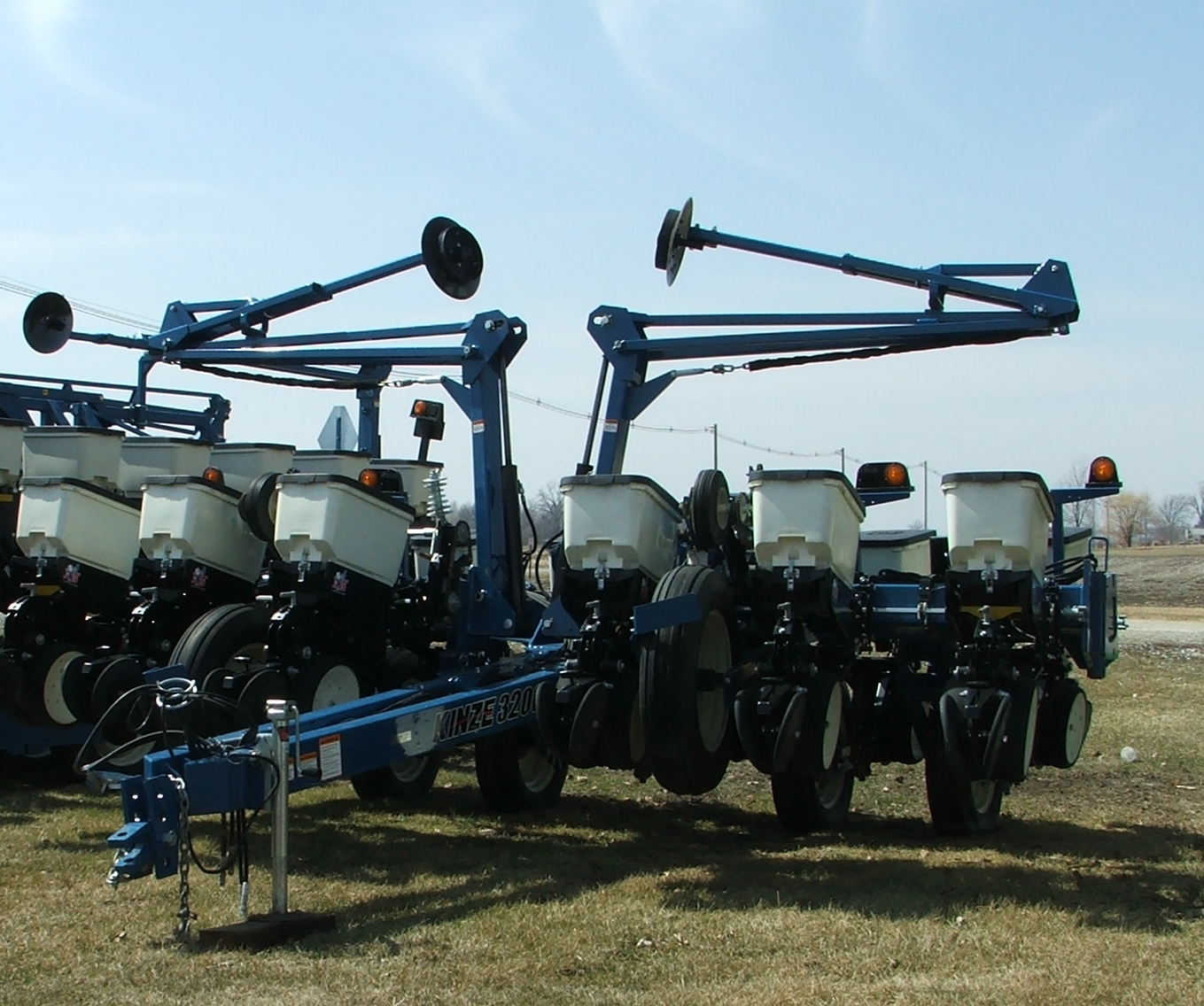 Kinze model 3200 planter folded for transport. I cropped this picture.